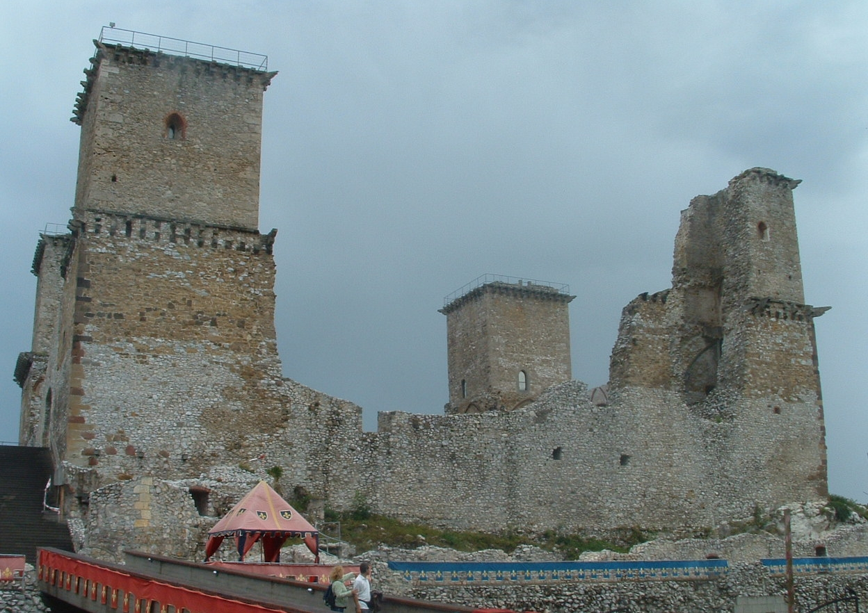 Diósgyőr castle in Miskolc, Hungary